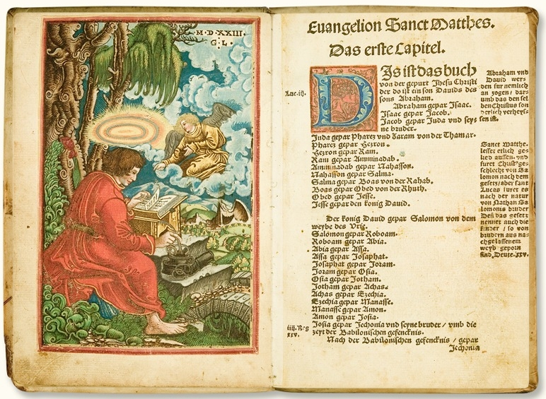 beginning of the Gospel of Matthew in the 1524 edition of the New Testament with a colored woodcut by Georg Lemberger (dated 1523)